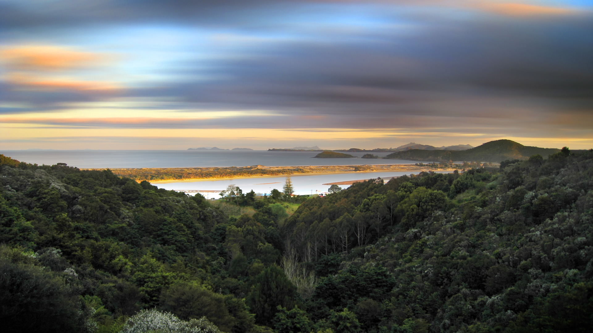 Late afternoon, looking out towards the sandspit at Ngunguru as it receives the last rays from the Sun. Five minute exposure. Post-processing in Photoshop.